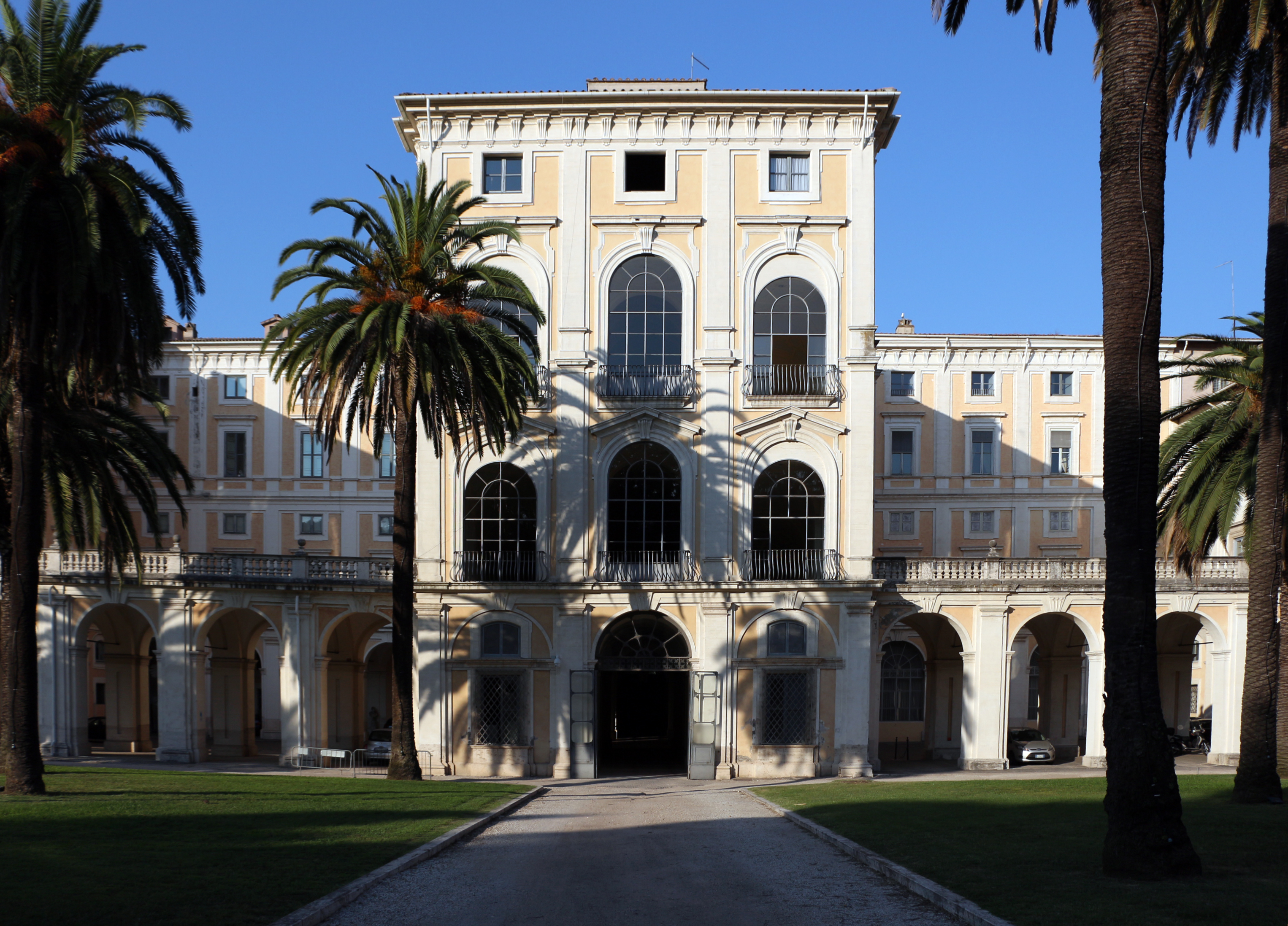 Palazzo Corsini alla Lungara (Rome)